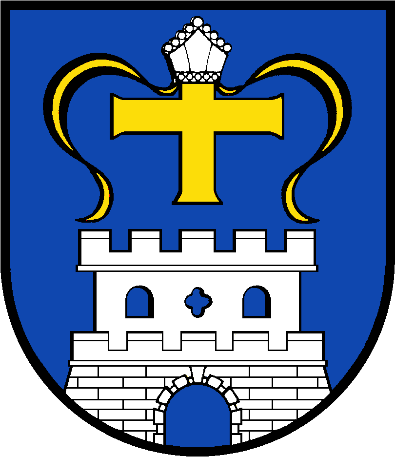 Coat Of Arms of the district Ostholstein in Schleswig-Holstein, Germany.